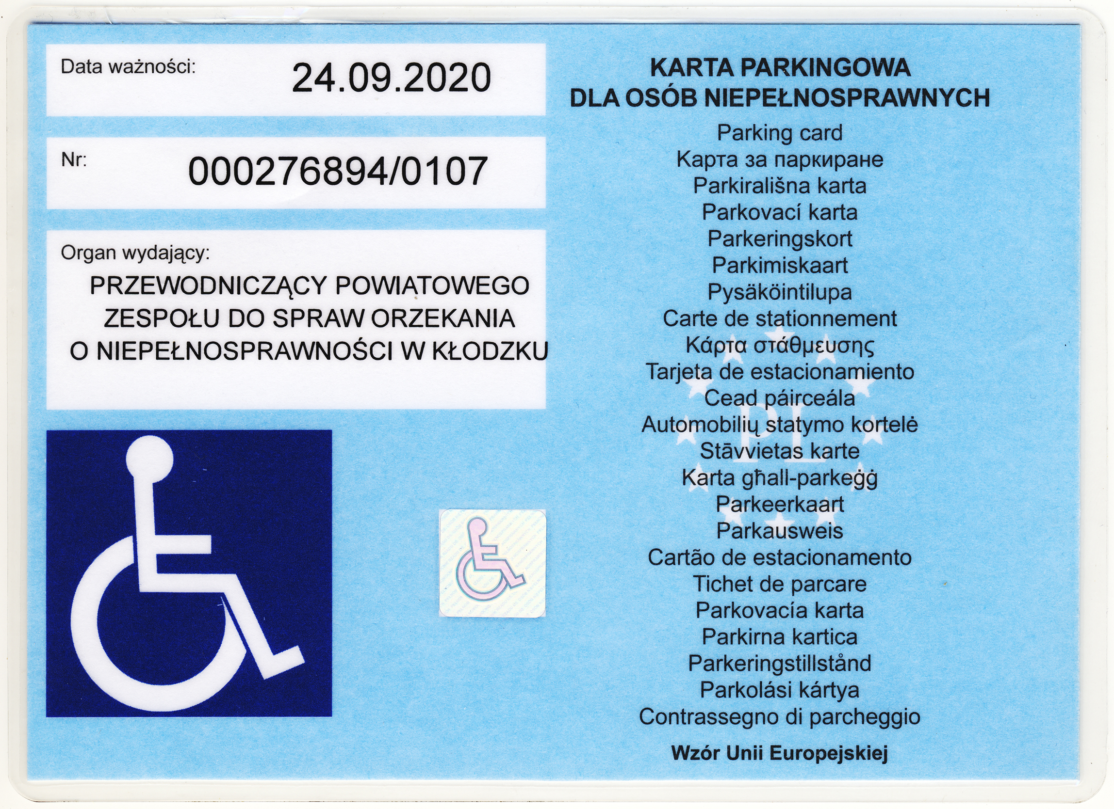 Front side of a disability parking permit issued in Poland complying with EU Council Recommendation 98/376/EC showing issuing authority, serial number and expiry date. The permit holder's personal details appear on the reverse side of the card.